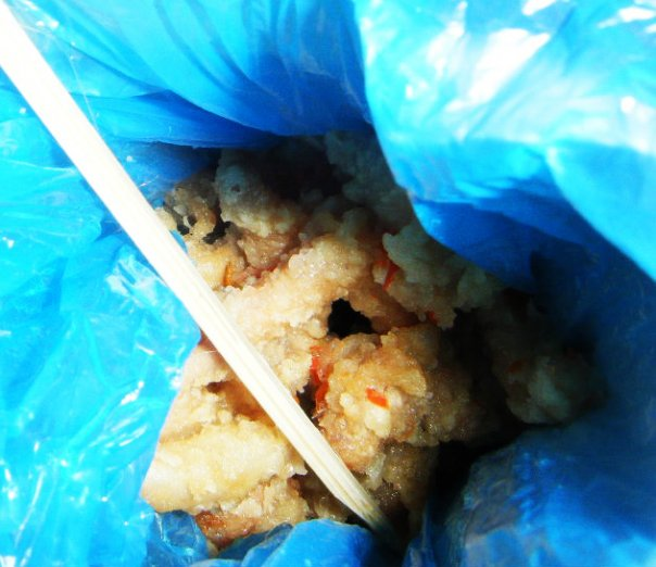 Proven street food from Los Baños, Laguna, Philippines